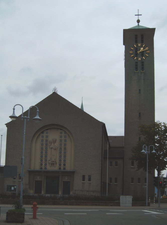 Church in St. Leon-Rot